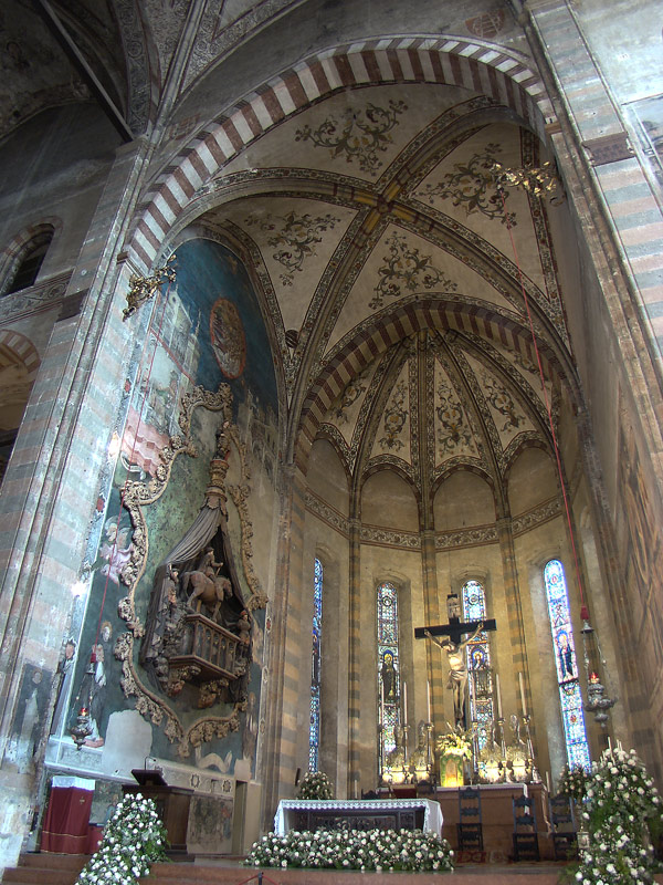 Sant'Anastasia, Verona, Veneto, Italy. Main chapel.